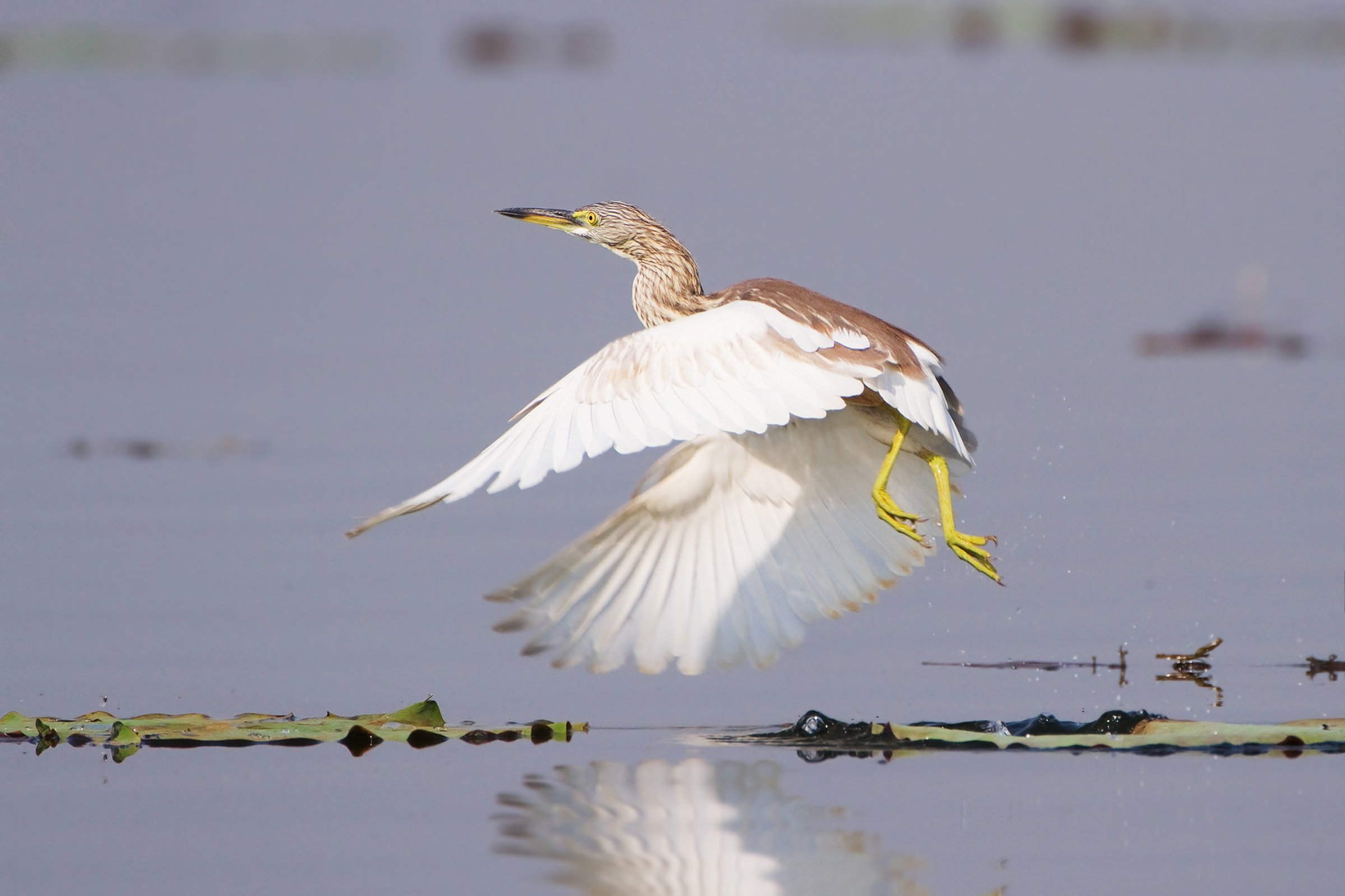 Chinese Pond Heron (Ardeola bacchus), Bueng Boraphet, Phra Non, Nakhon Sawan, Thailand